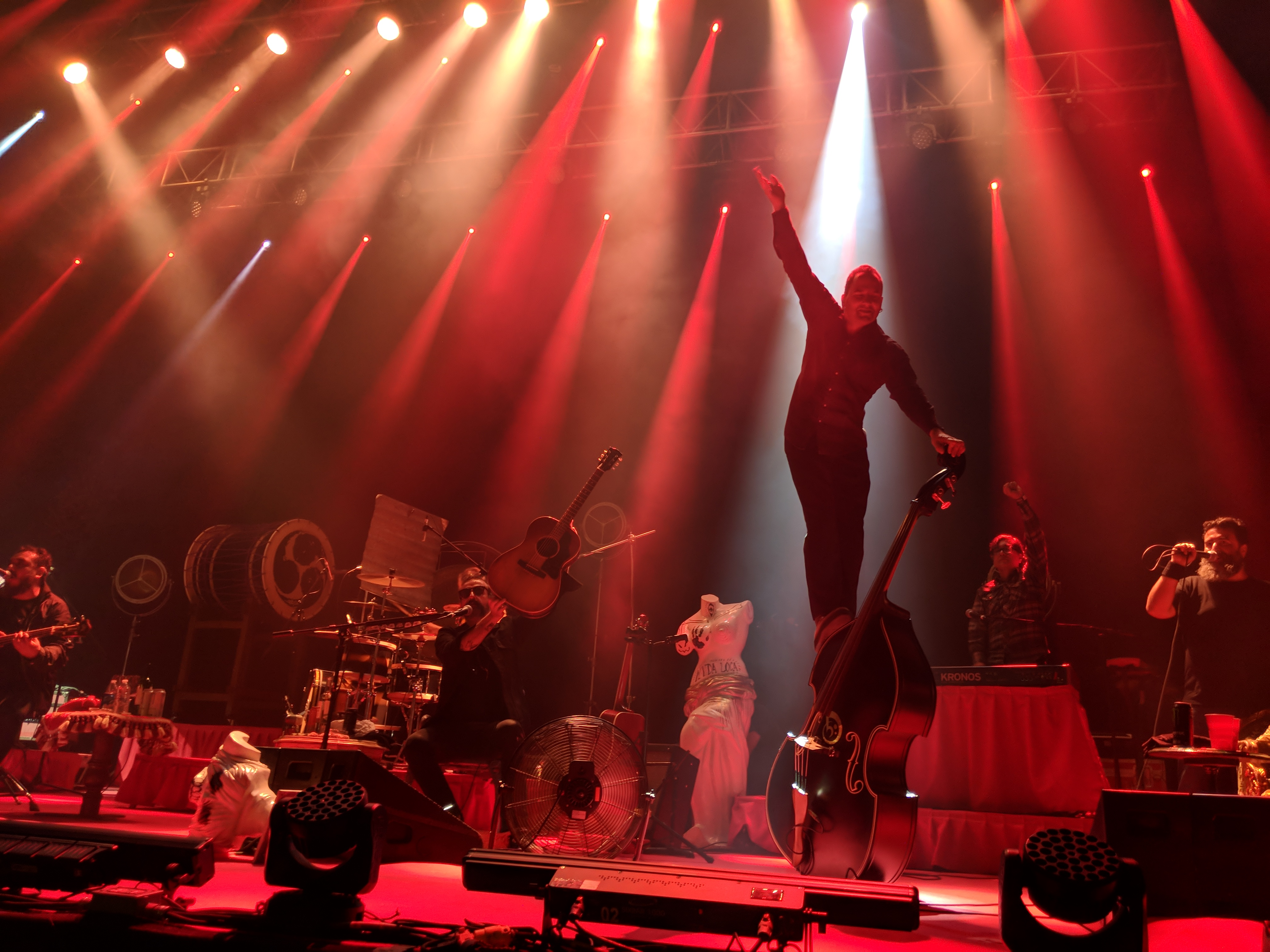 Ο Djordje Stijepovic με τον Money Mark (Beastie Boys) κατά τη διάρκεια συναυλίας των Molotov στην Puebla το 2019.